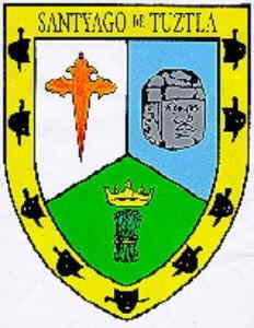 Escudo de la ciudad de Santiago Tuxtla, Veracruz, México..